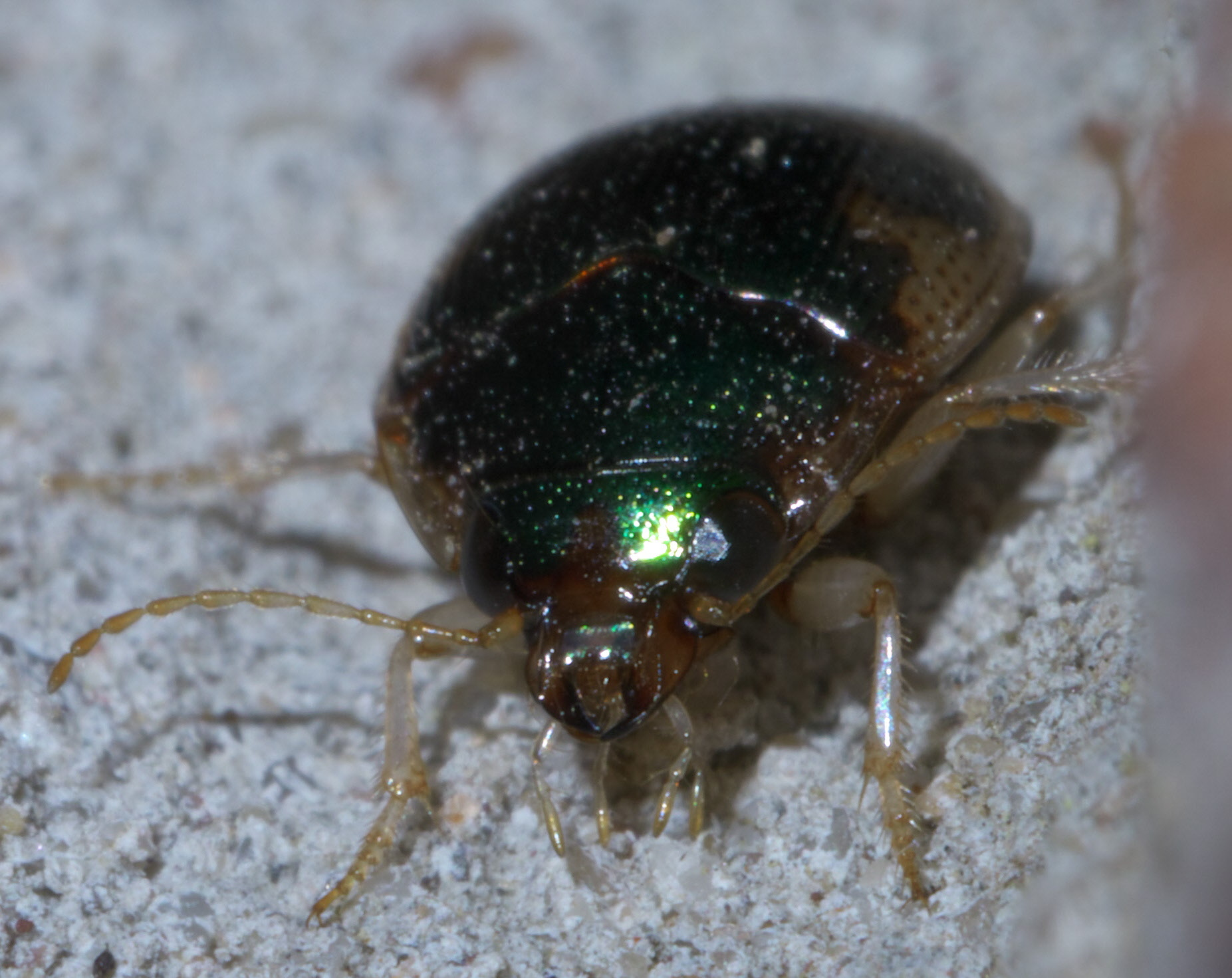 Omophron nitidum, Shiny Round Sand Beetle, ID Confidence: 98